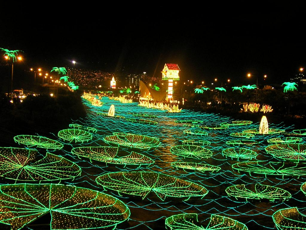 Medellín River during Christmas 2004, in Medellín, Colombia.